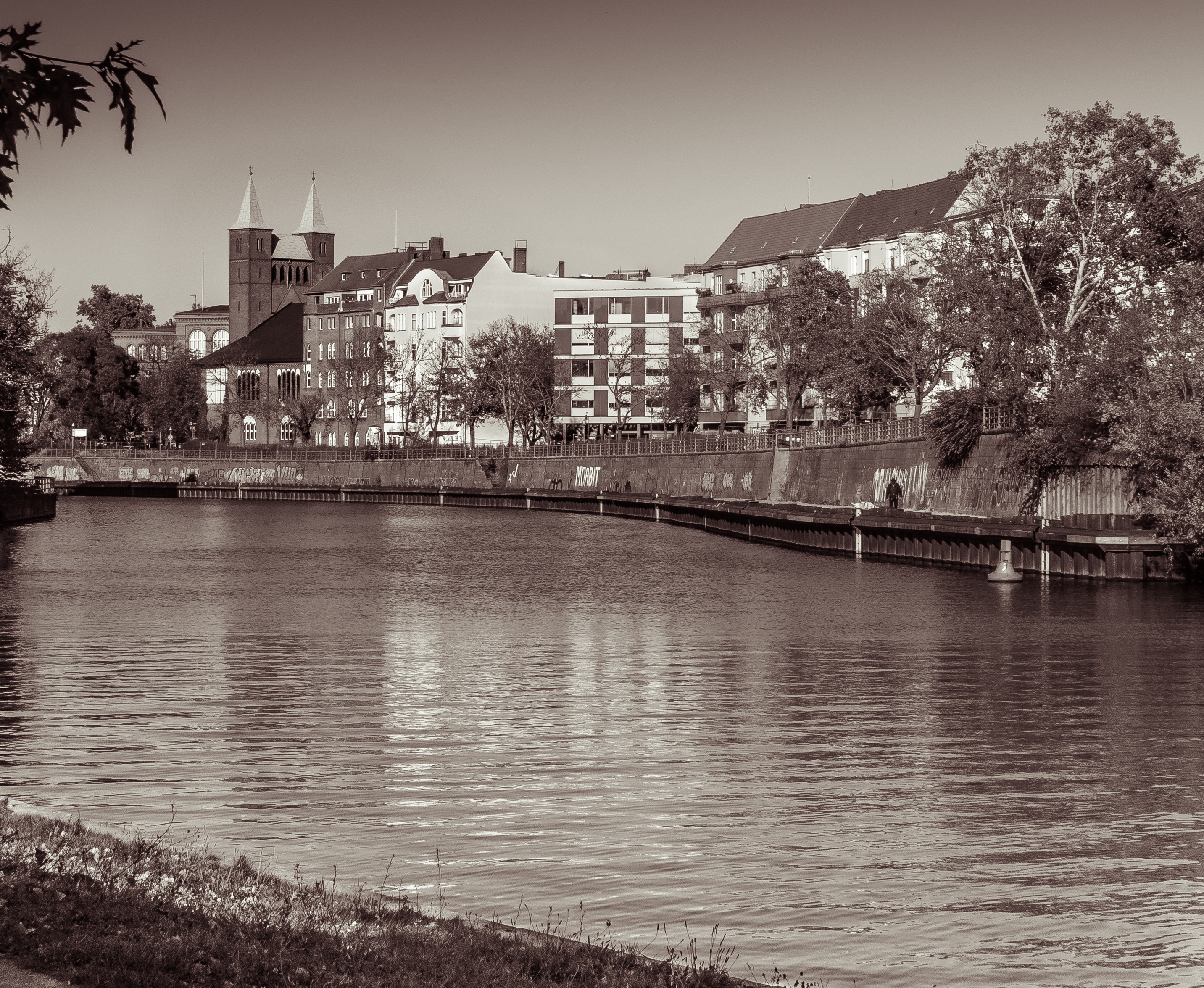 Berlin, Spree, view of Gotzkowskybrücke from south, opposite from Wikingerufer